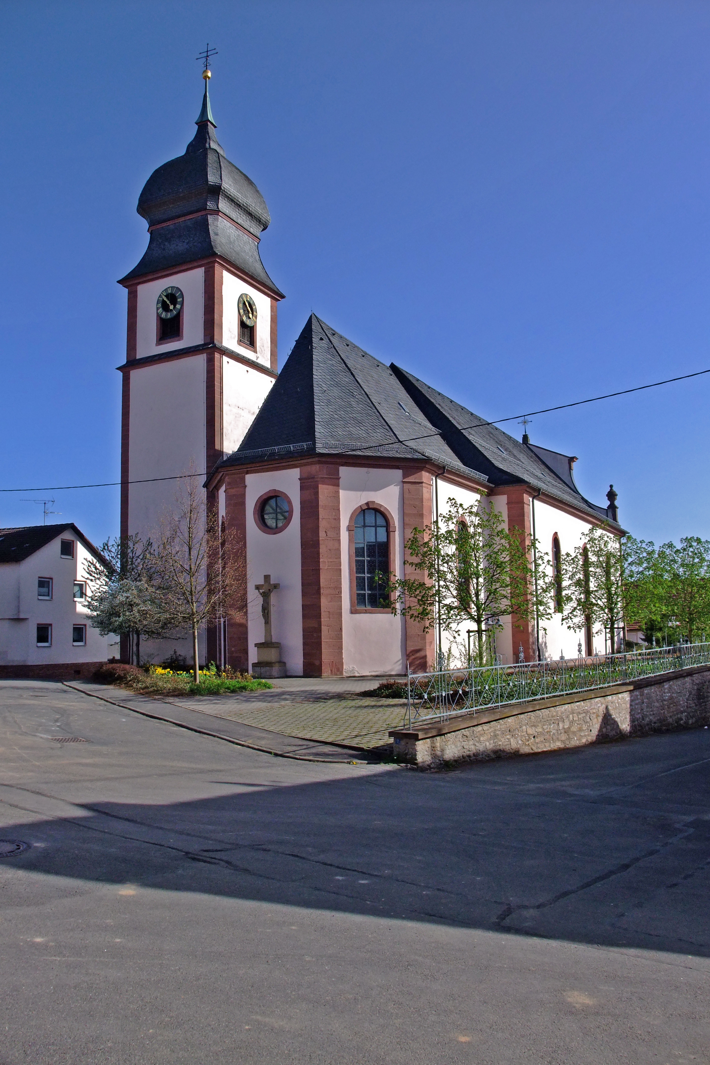 St. Michael Großrinderfeld Ansicht